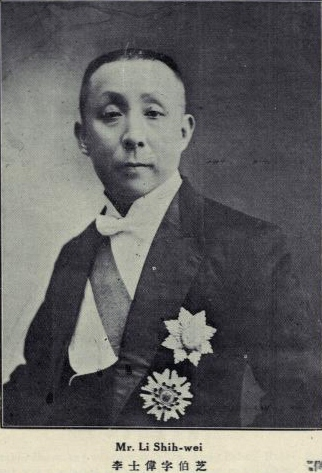 Li Shiwei, Bozhi (1883 - 1927)